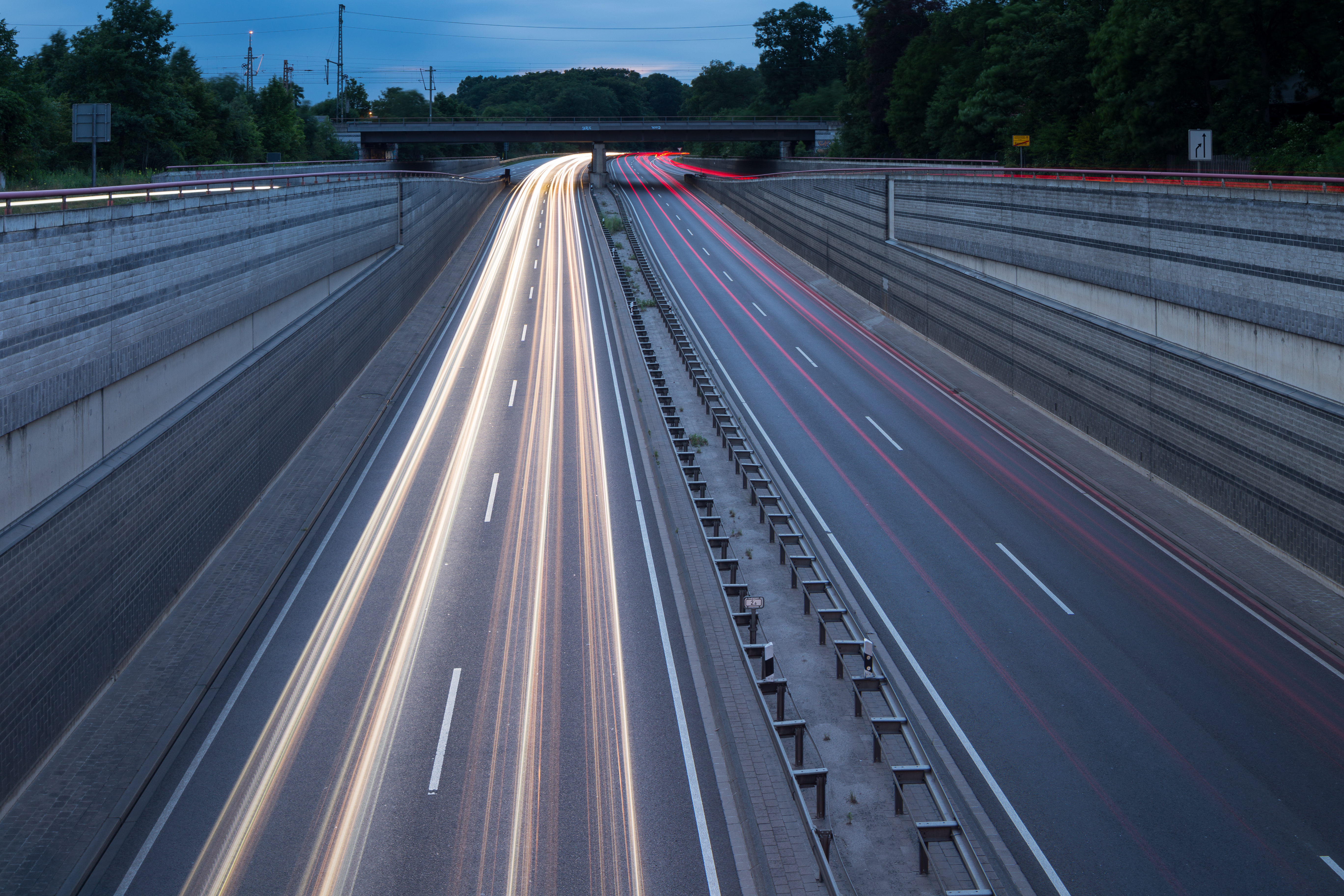 Pferdeturm intersection of city expressway Hannover located in Bult and Kleefeld quarters of Hannover, Germany.